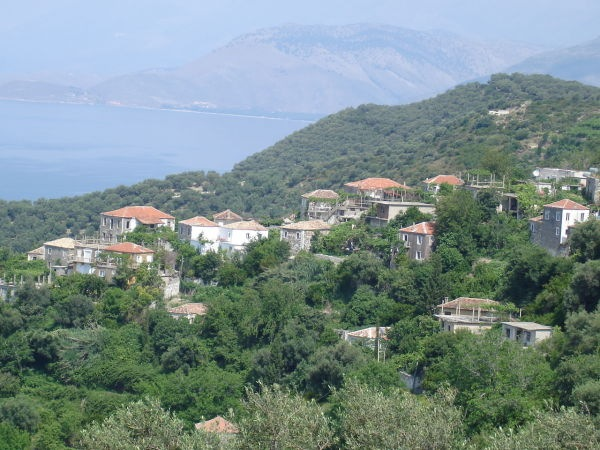 A view over Lukova village.